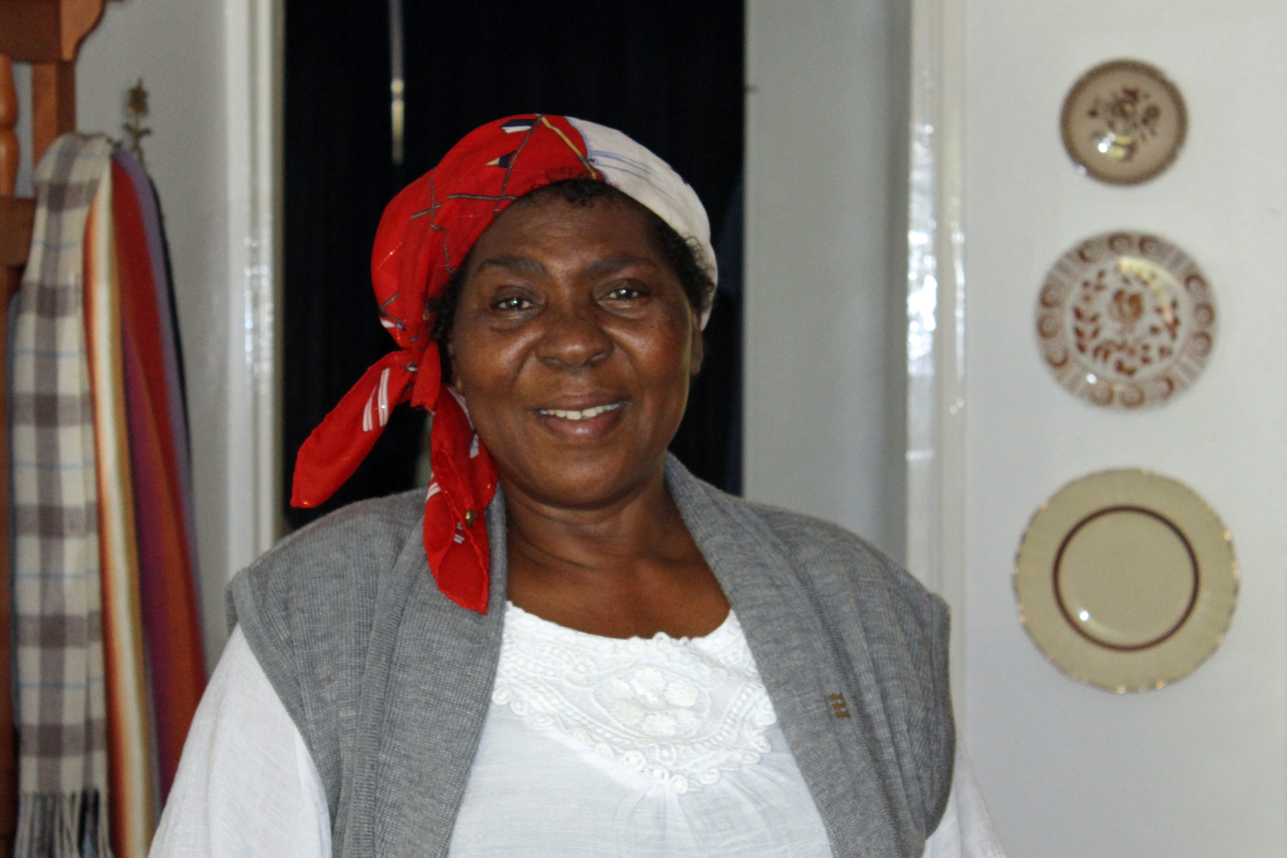 Portrait of a Xhosa woman from the Transkei who lives in the Western Cape, South Africa